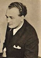 Štefan Hoza, Slovak singer, 1937